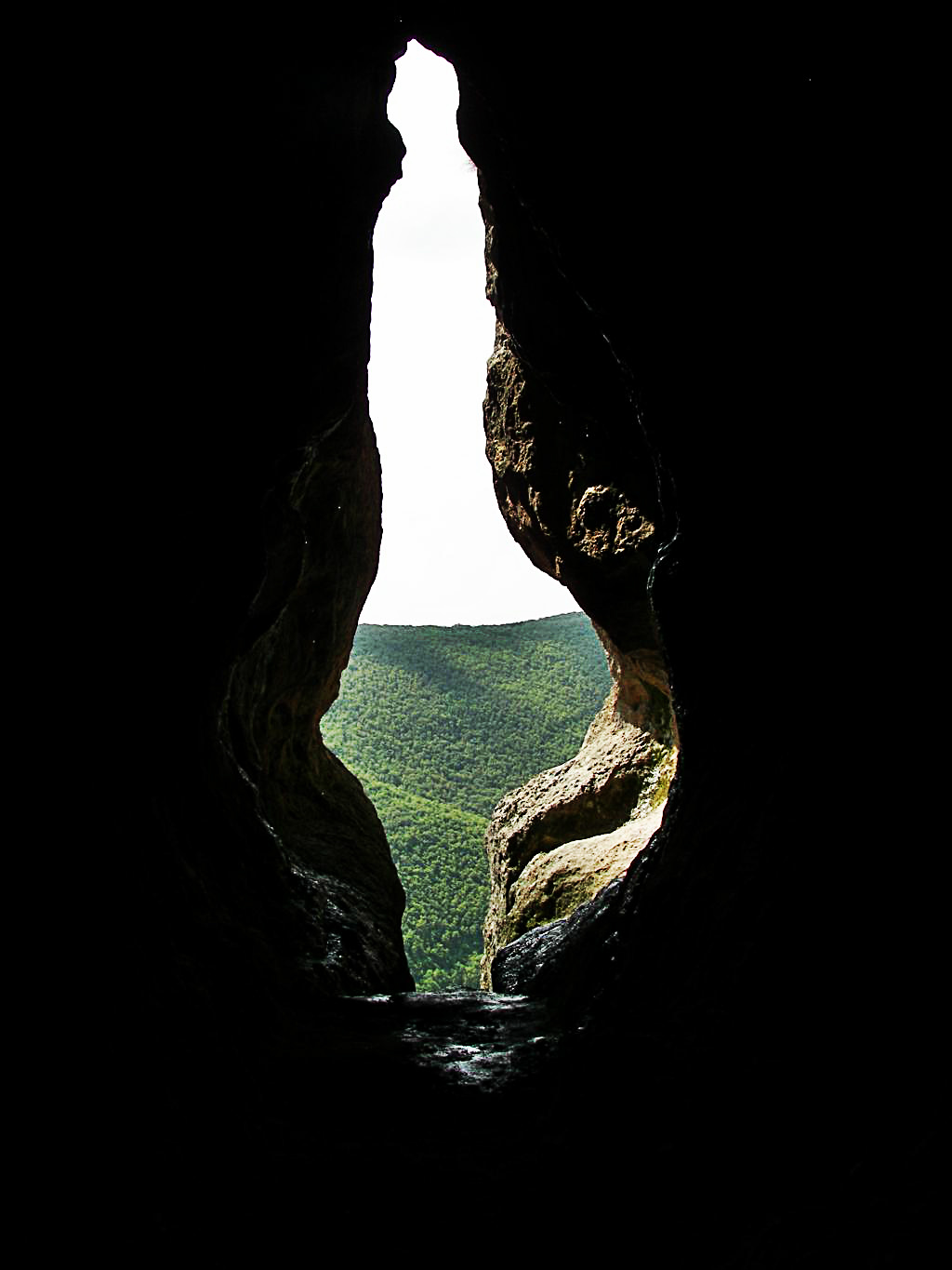 Tangarduk Kaya Womb Cave BG